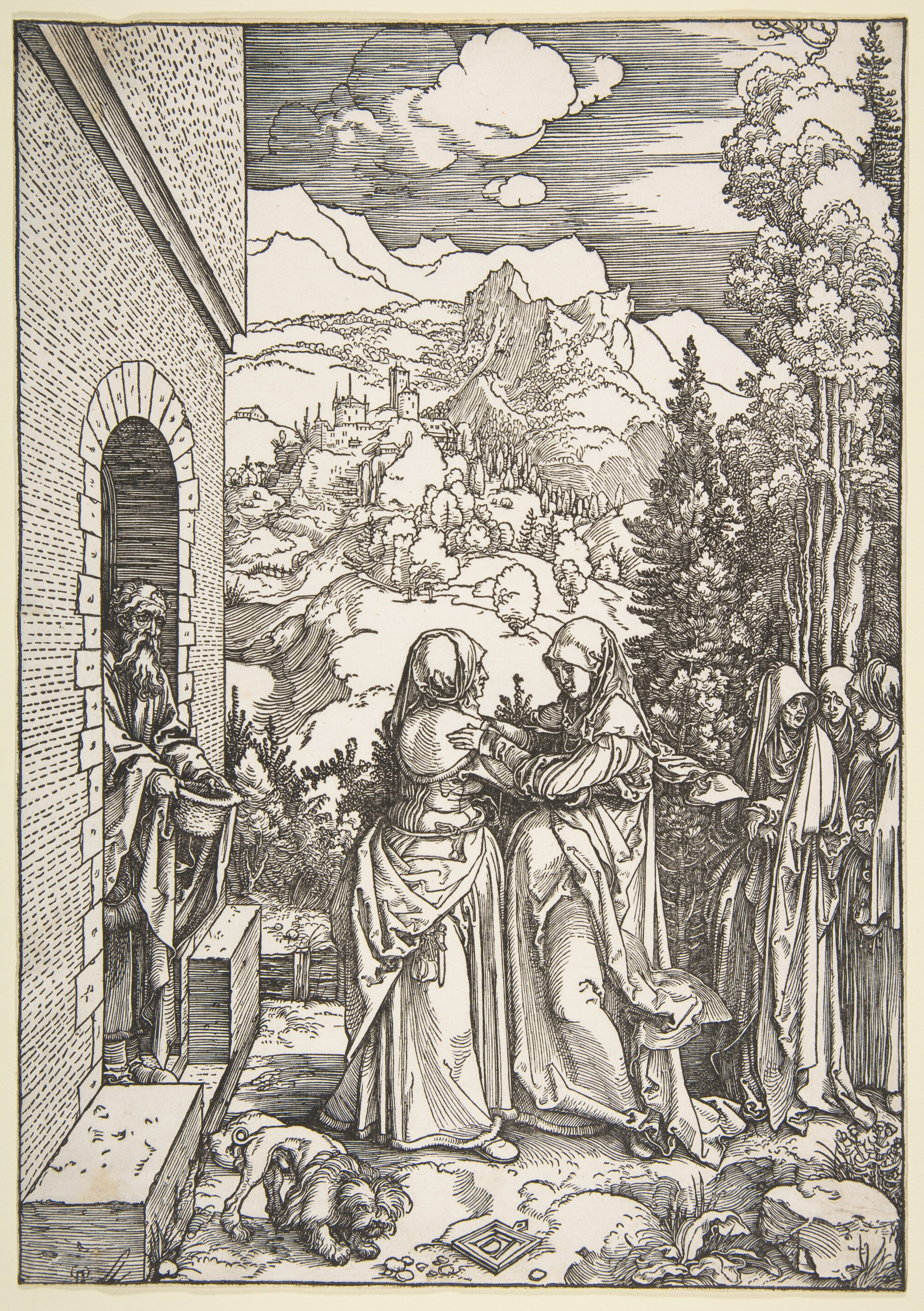 Print; Prints